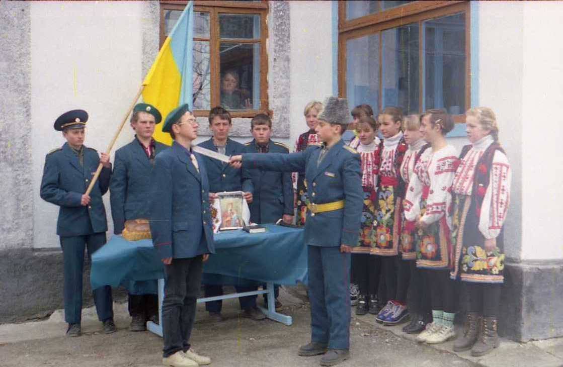 Ритуал посвяти в джури. Козацька зброя.